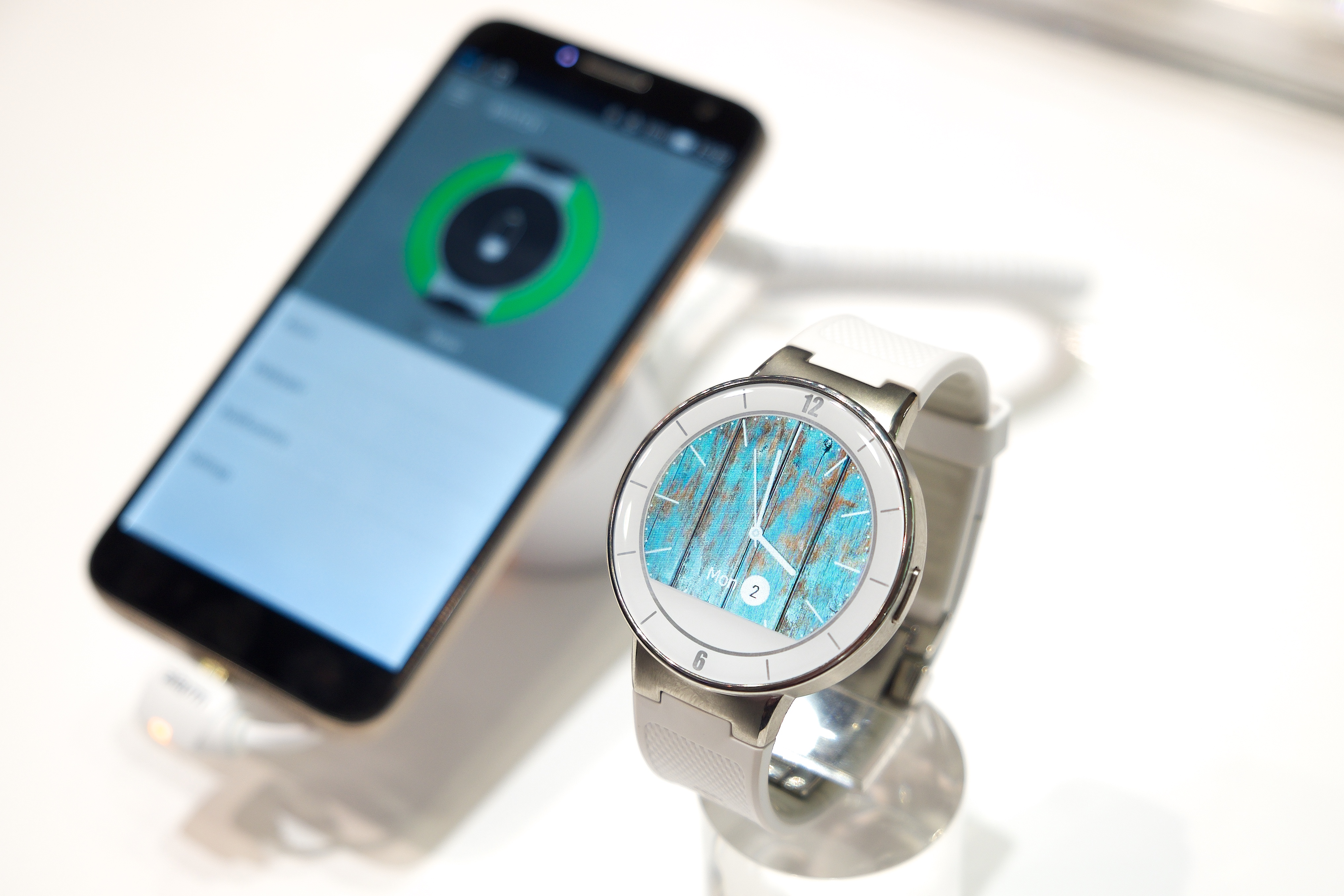 Alcatel smartwatch at Mobile World Congress 2015 Barcelona